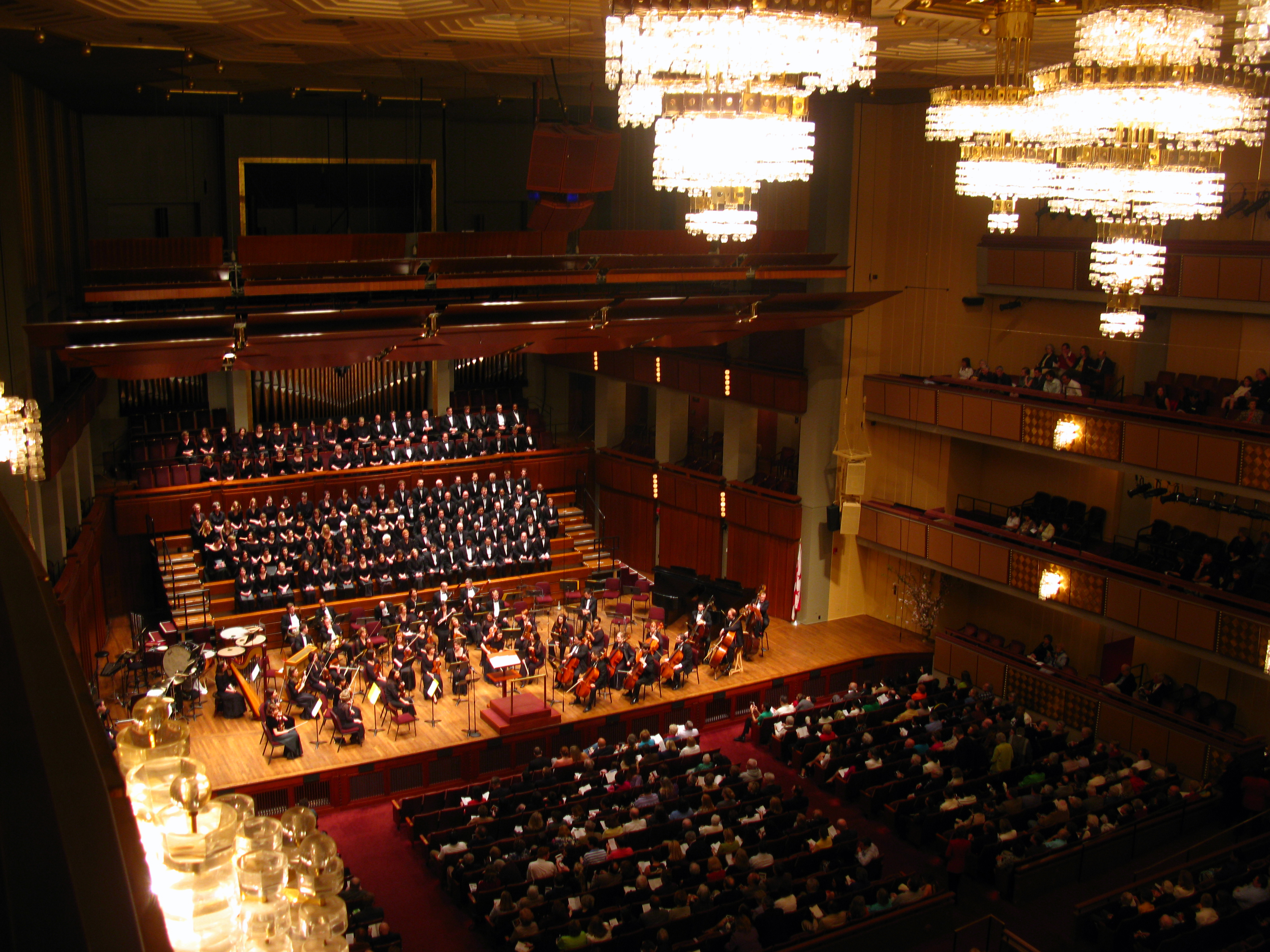 At the Kennedy Center to see the National Symphony Orchestra and the Master Chorale of Washington (in their last performance!) perform Carmina Burana O Fortuna as well as some other songs. 2010 10 30 - Used on We Love DC